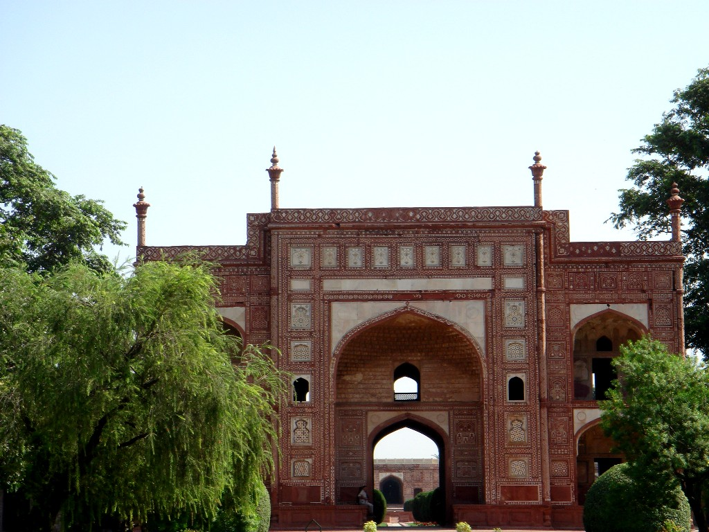 Picture by M Kaiser Tufail, 9 Oct '06